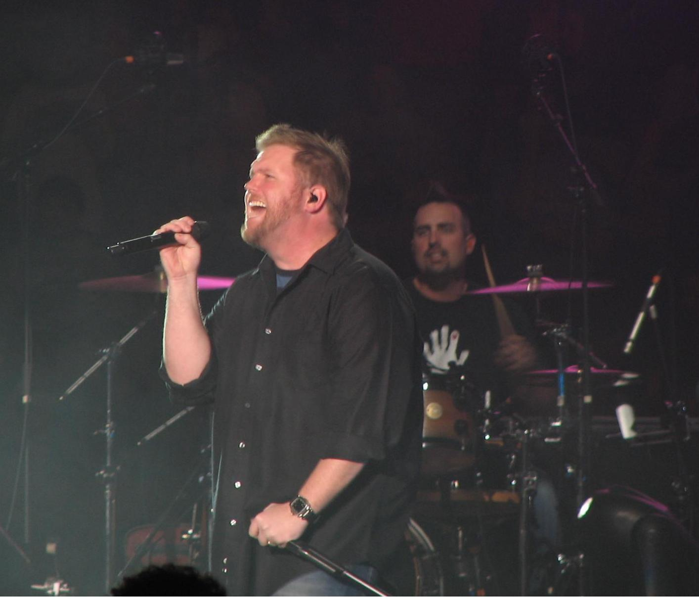 Bart Millard (lead singer) and Robin Shaffer (drummer) from MercyMe in concert at the BI-LO Center in Greenville, South Carolina at the WinterJam event on February 15, 2008.